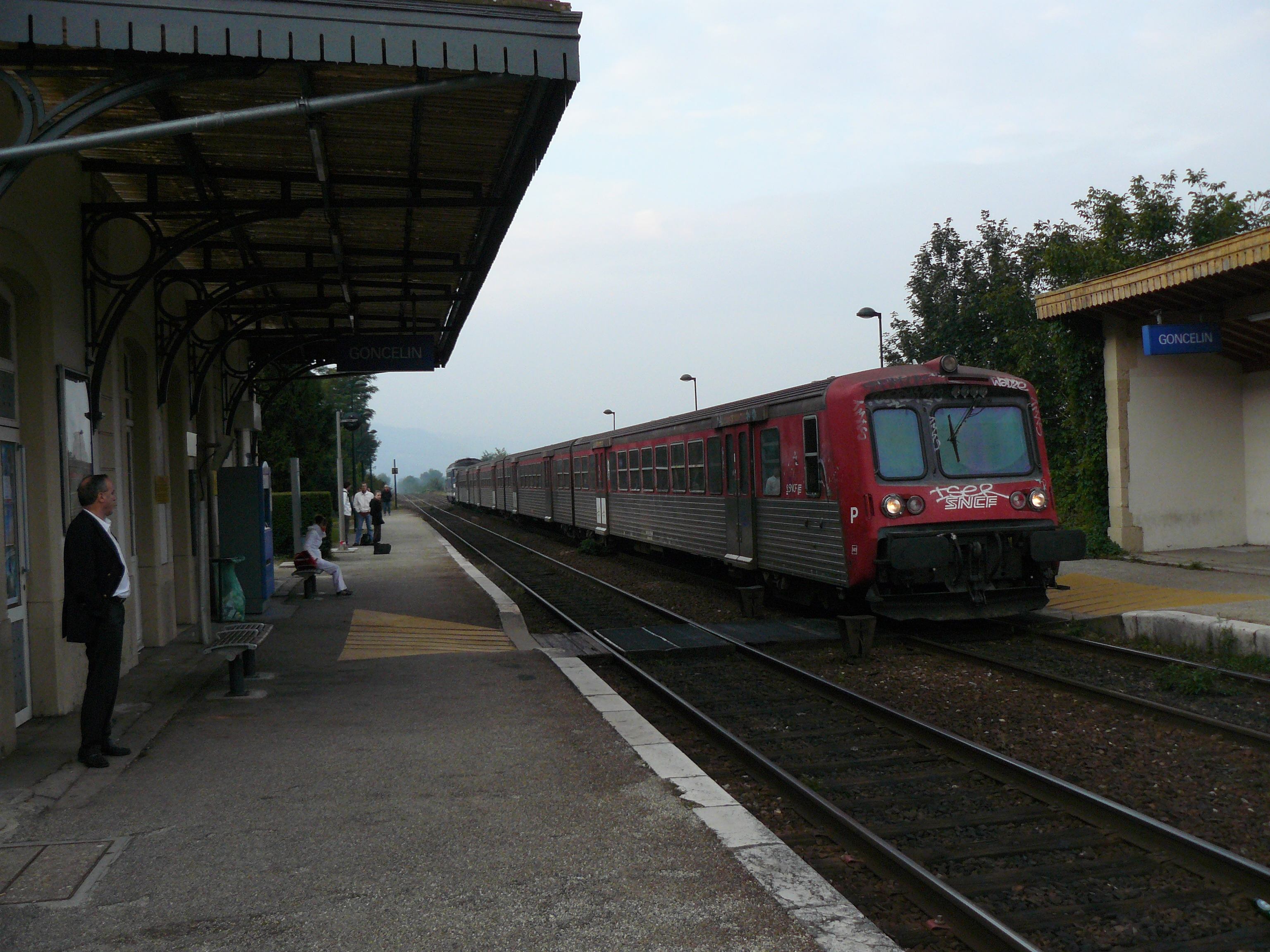 A view of the french railway station named Goncelin